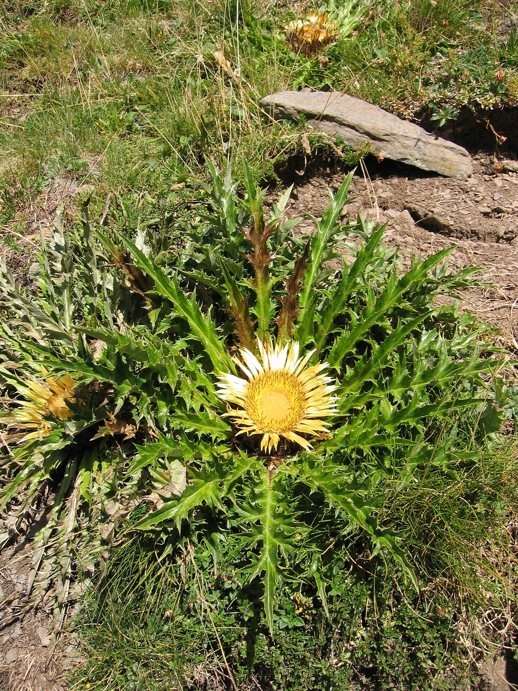 Carlina acanthifolia Near Soques, Pyrenees, France